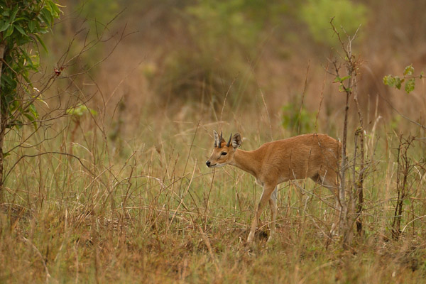 Four-horned Antelope, also known as Chousingha are found in dry deciduous forests and are solitary in nature.